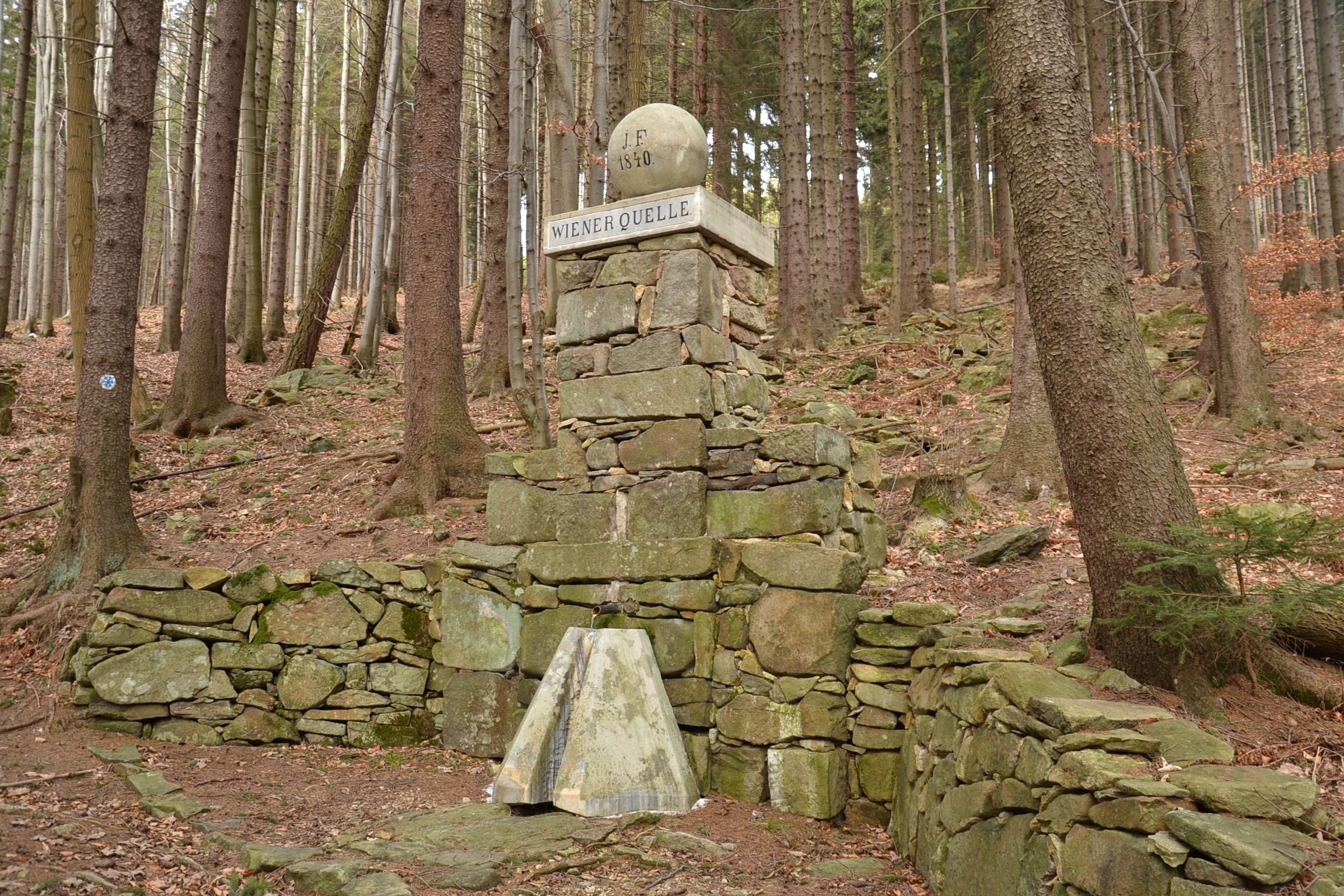 Lázně Jeseník (Bad Gräfenberg) - Vienna spring - Wiener Quelle - Vídeňský pramen